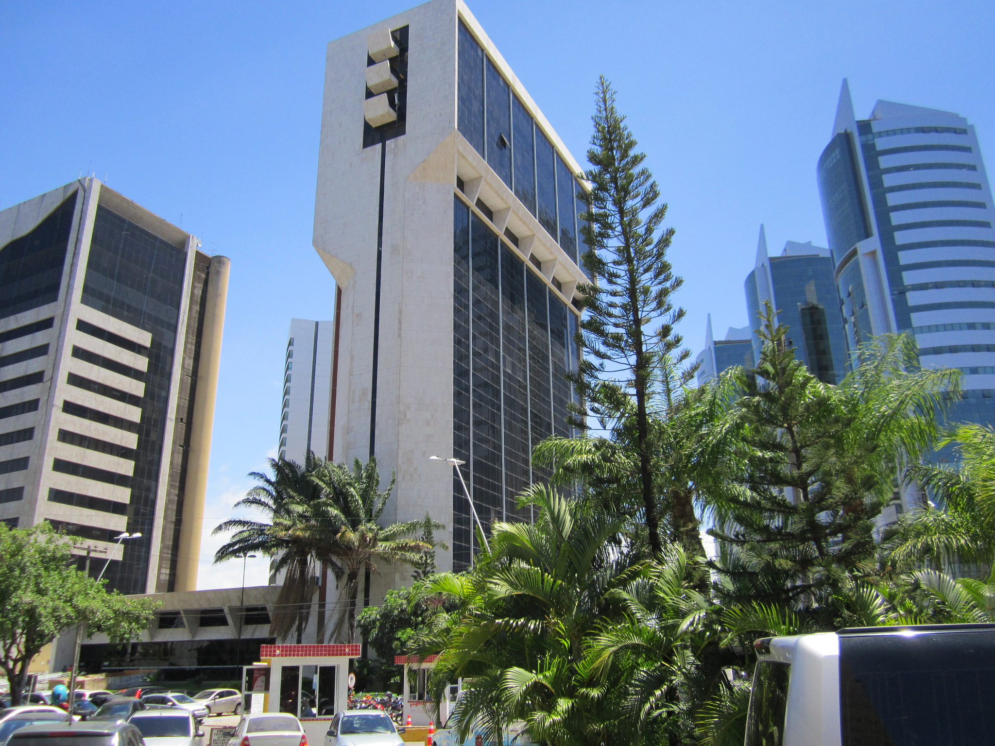 The neighborhood of Boa Viagem - Recife, Pernambuco, Brazil